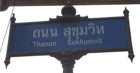 Picture taken myself in use on en: and nl: wikipedia's on Sukhumvit article